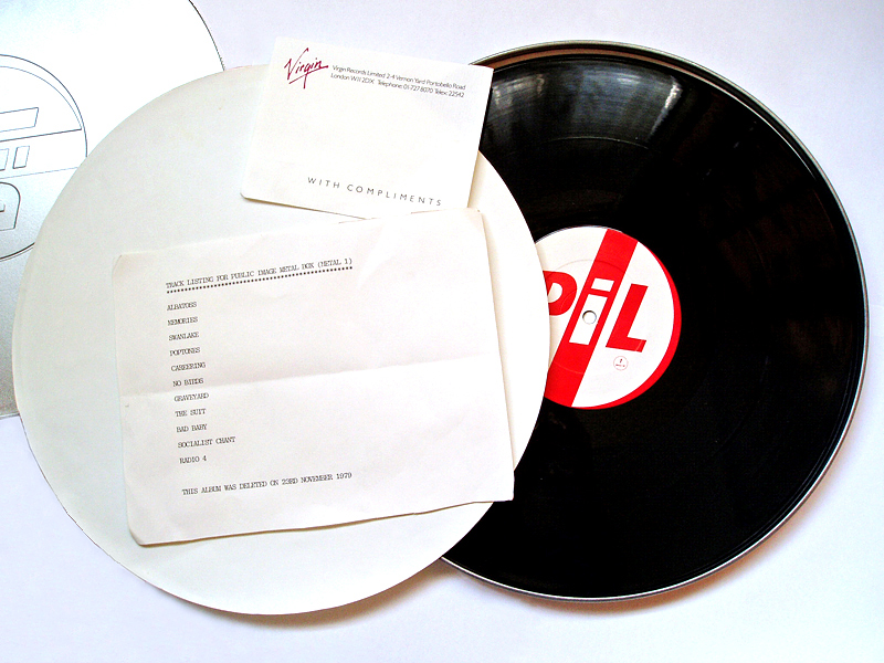 PIL - Metal Box original open. Picture of my copy taken by me Ian Dunster 15:15, 2 May 2005 (UTC)